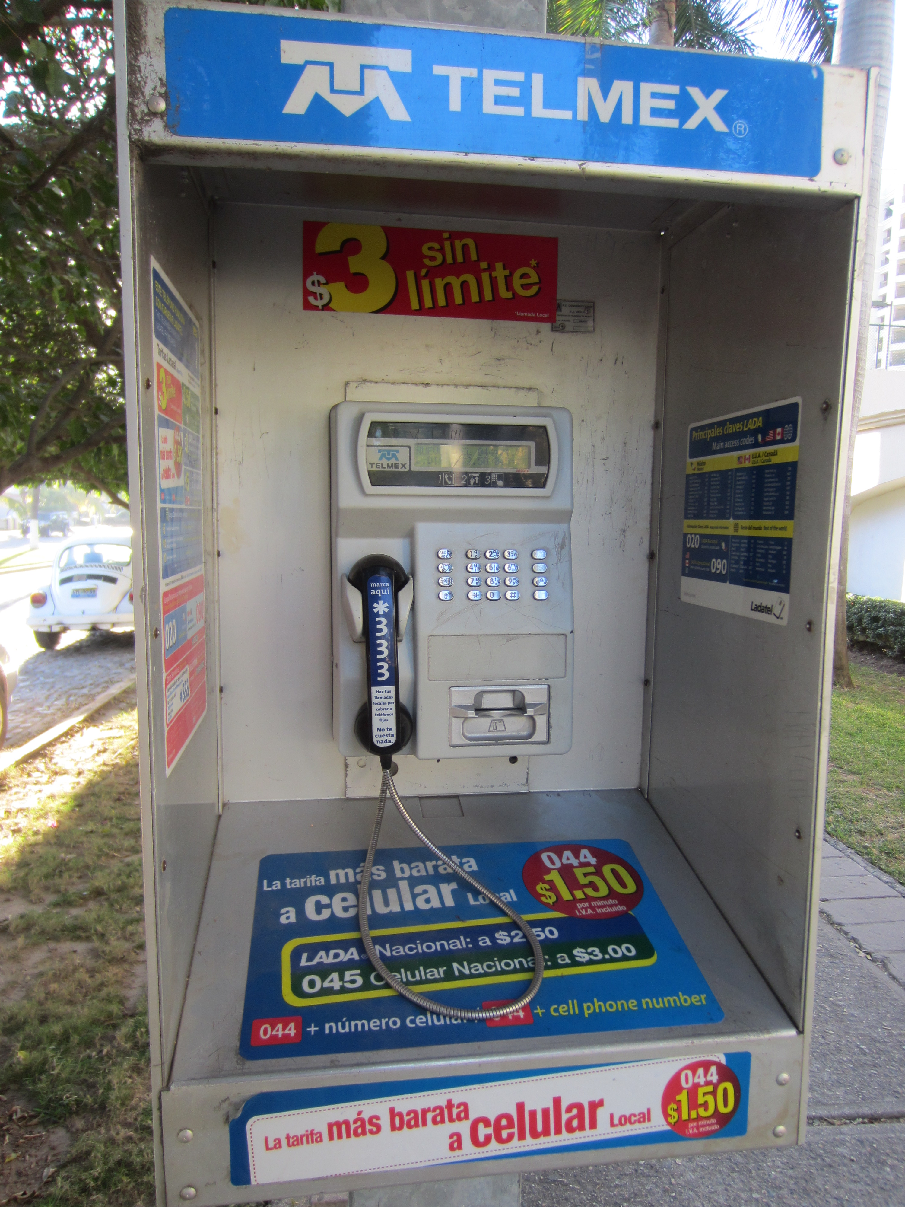 Telmex payphone, Puerto Vallarta (2014)